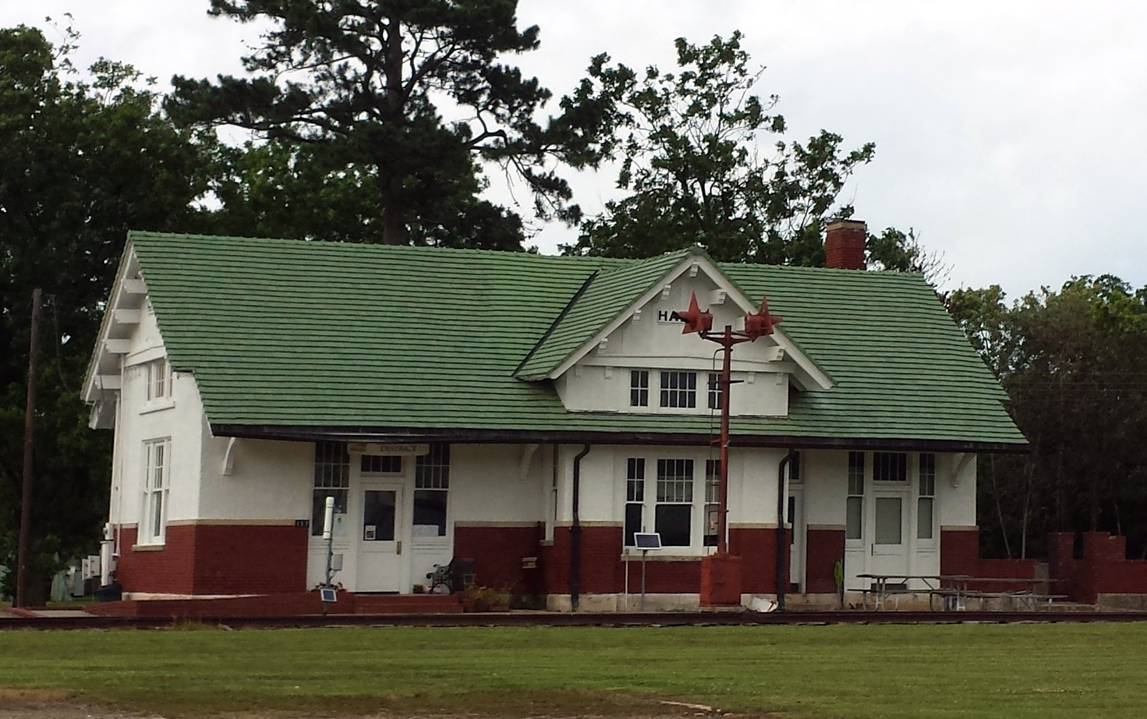 Hwy. 70 1915 depot with Craftsman and Tudor Revival influences